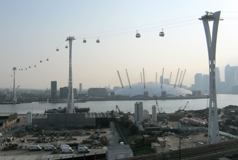 Photograph of the towers of the Emirates Air Line gondola lift cable car, from the north bank of the River Thames.